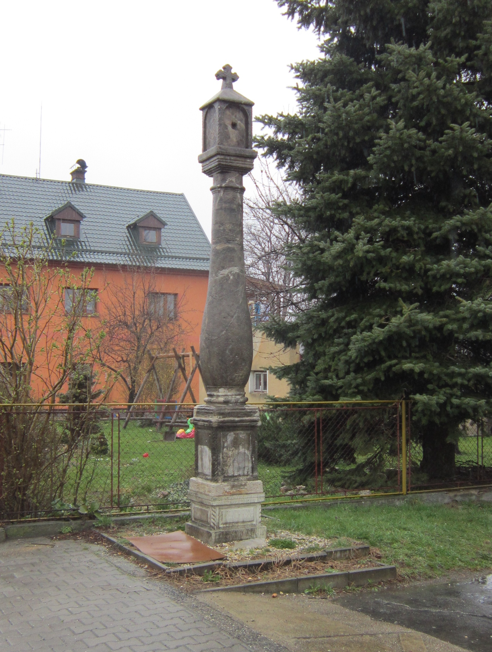 Wayside shrine in Jizerská street, Hejnice, Liberec region